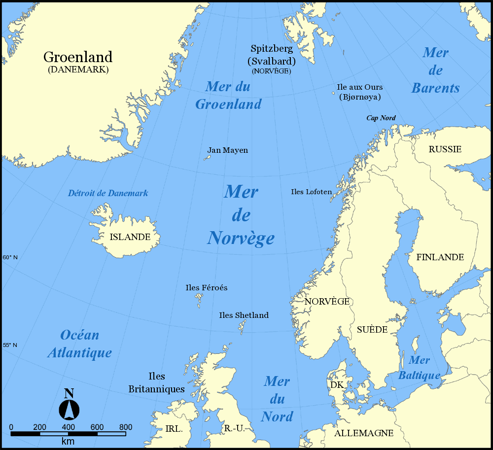 Map of the Norwegian Sea. (in french)